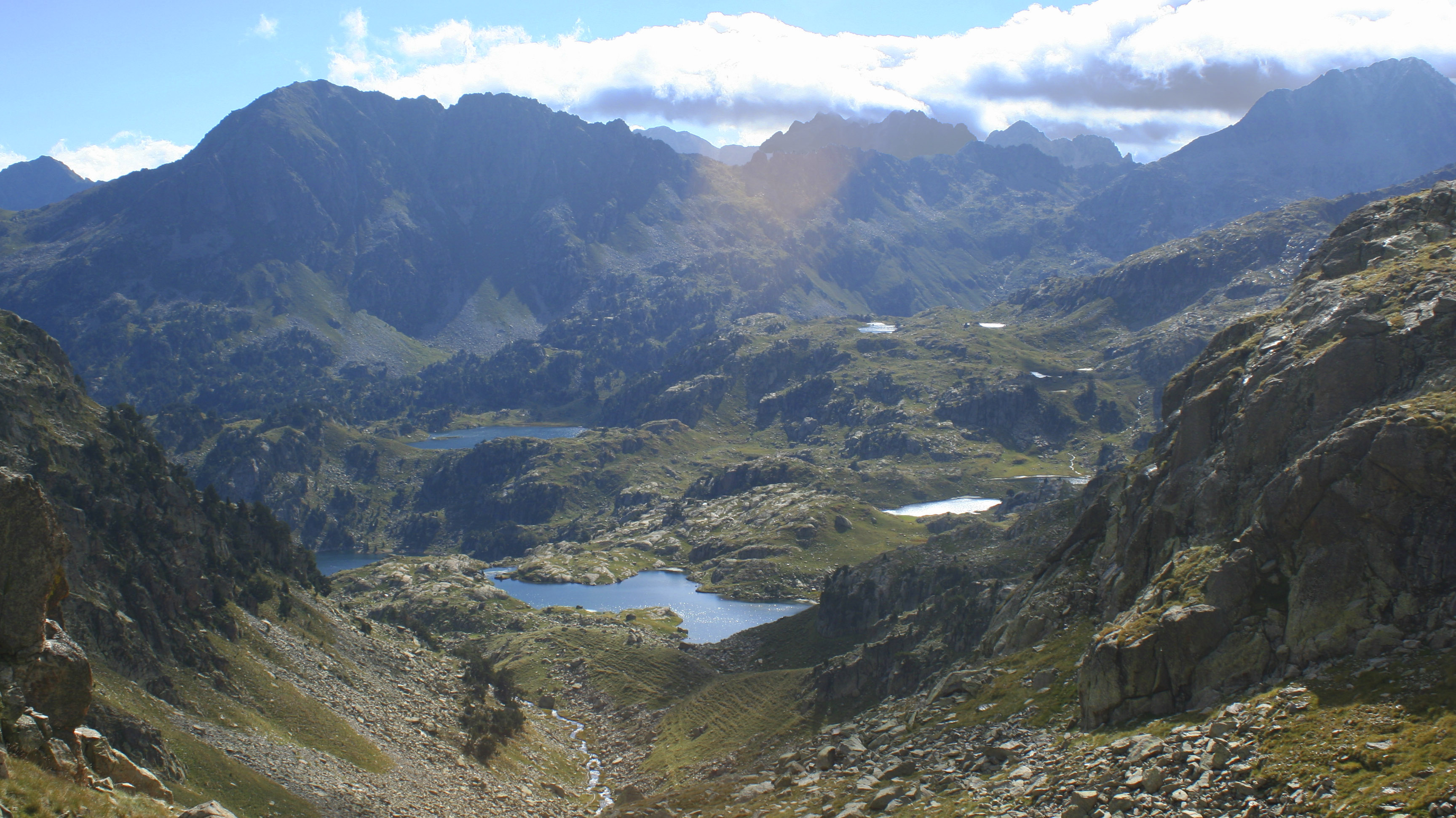 Coma del Port de Caldes